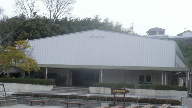 Midorigaoka Elementary School Mikicity gymnasium